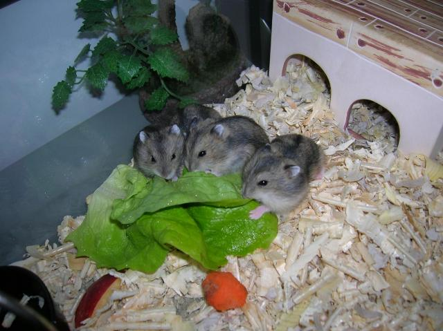 Phodopus sungorus, few weeks old youngsters.